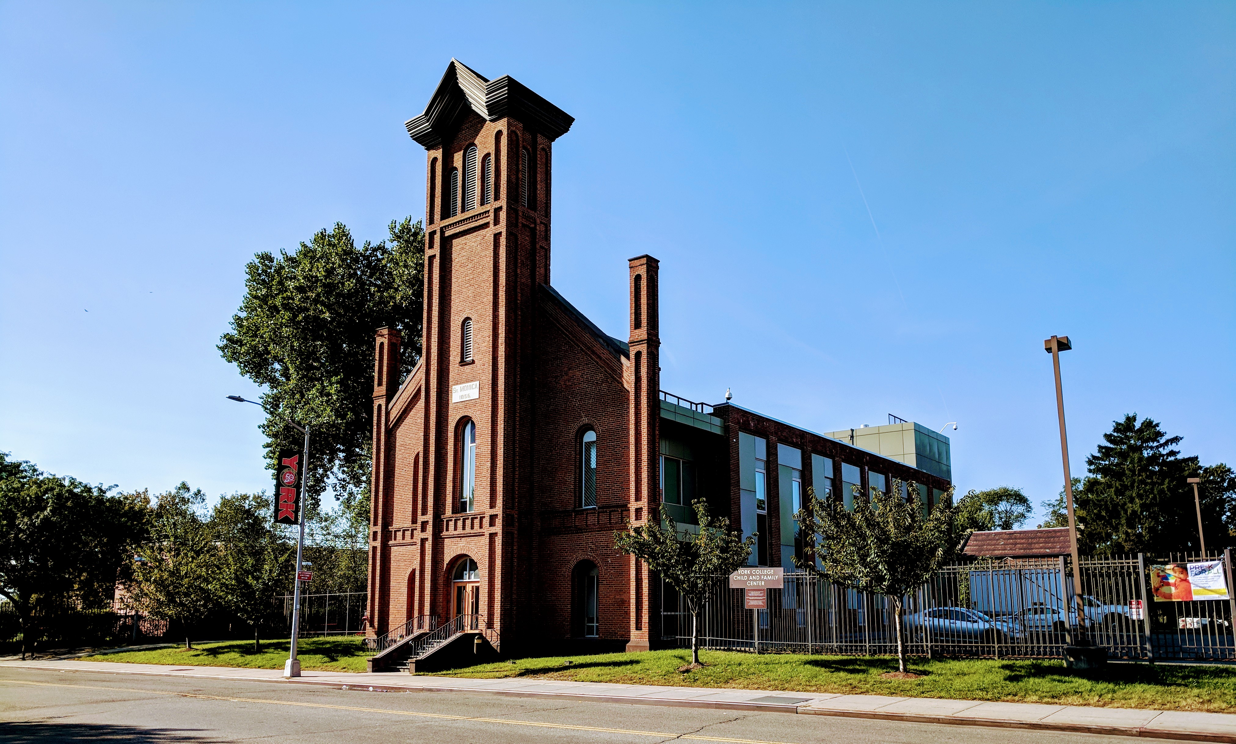 St Monica's Roman Catholic Church's central campanile is reminiscent of Romanesque architecture is one of the earliest surviving examples of 18th century early Romanesque revival architecture in N.Y.